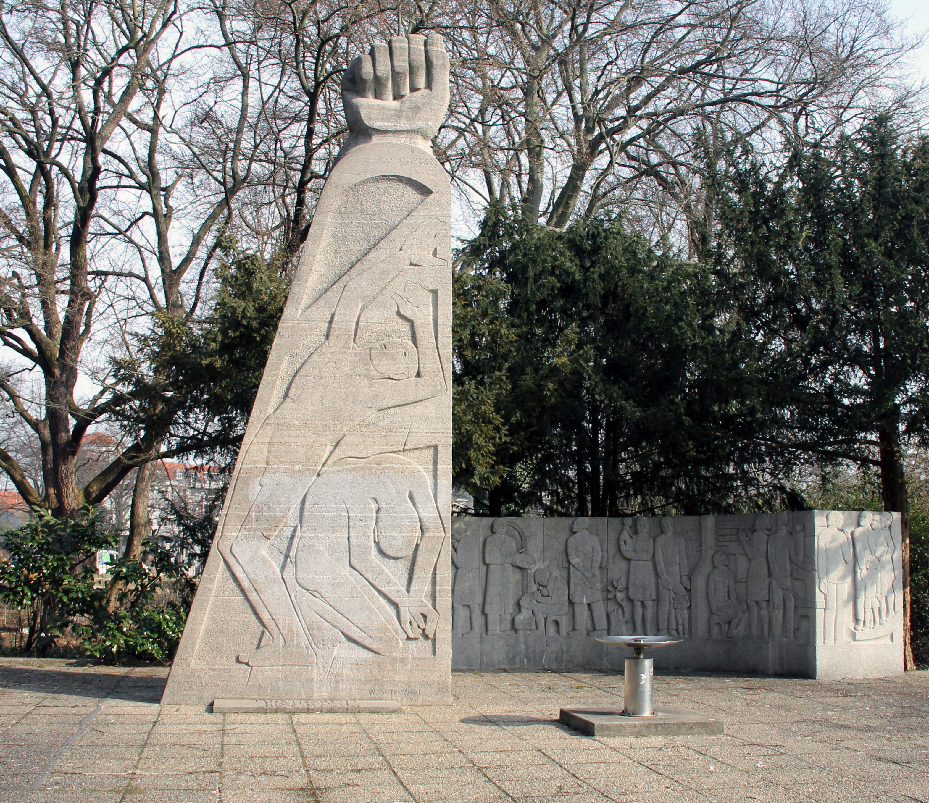 Steles, "Köpenicker Blutwoche" by Walter Sutkowski, 1969, Platz des 23. April , Berlin-Köpenick, Germany